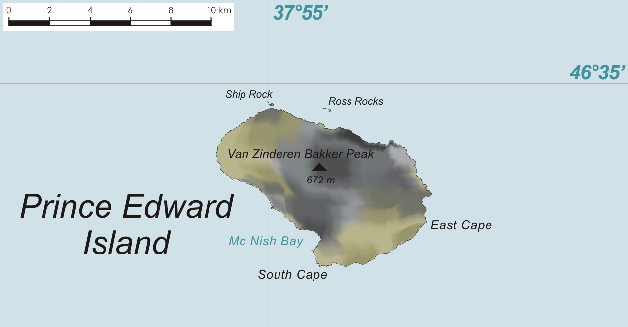 Map of Prince Edward Island, Prince Edward Islands, in the Southern Indian Ocean